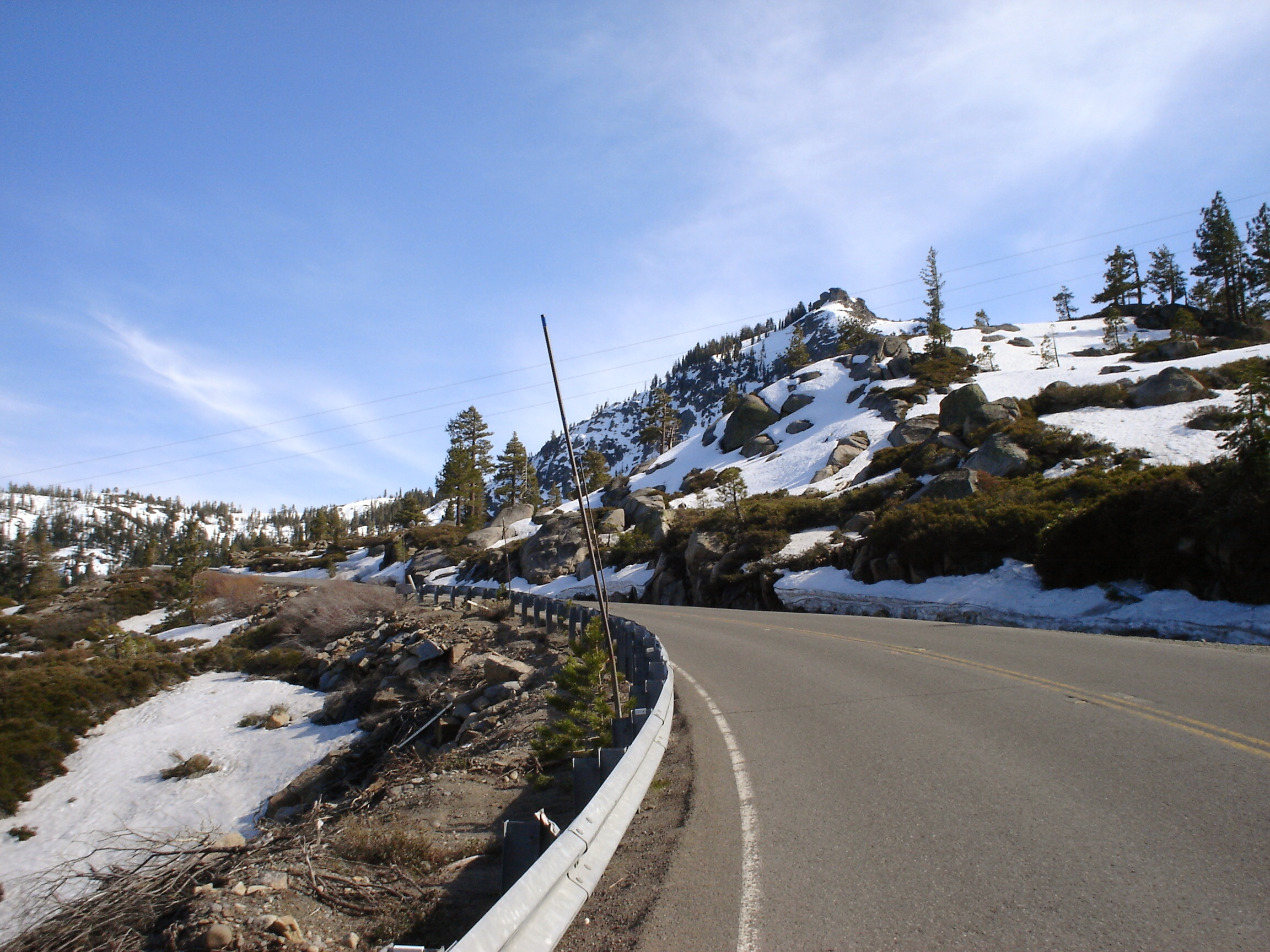 Author:Robert E. Nylund Source:Personal photos